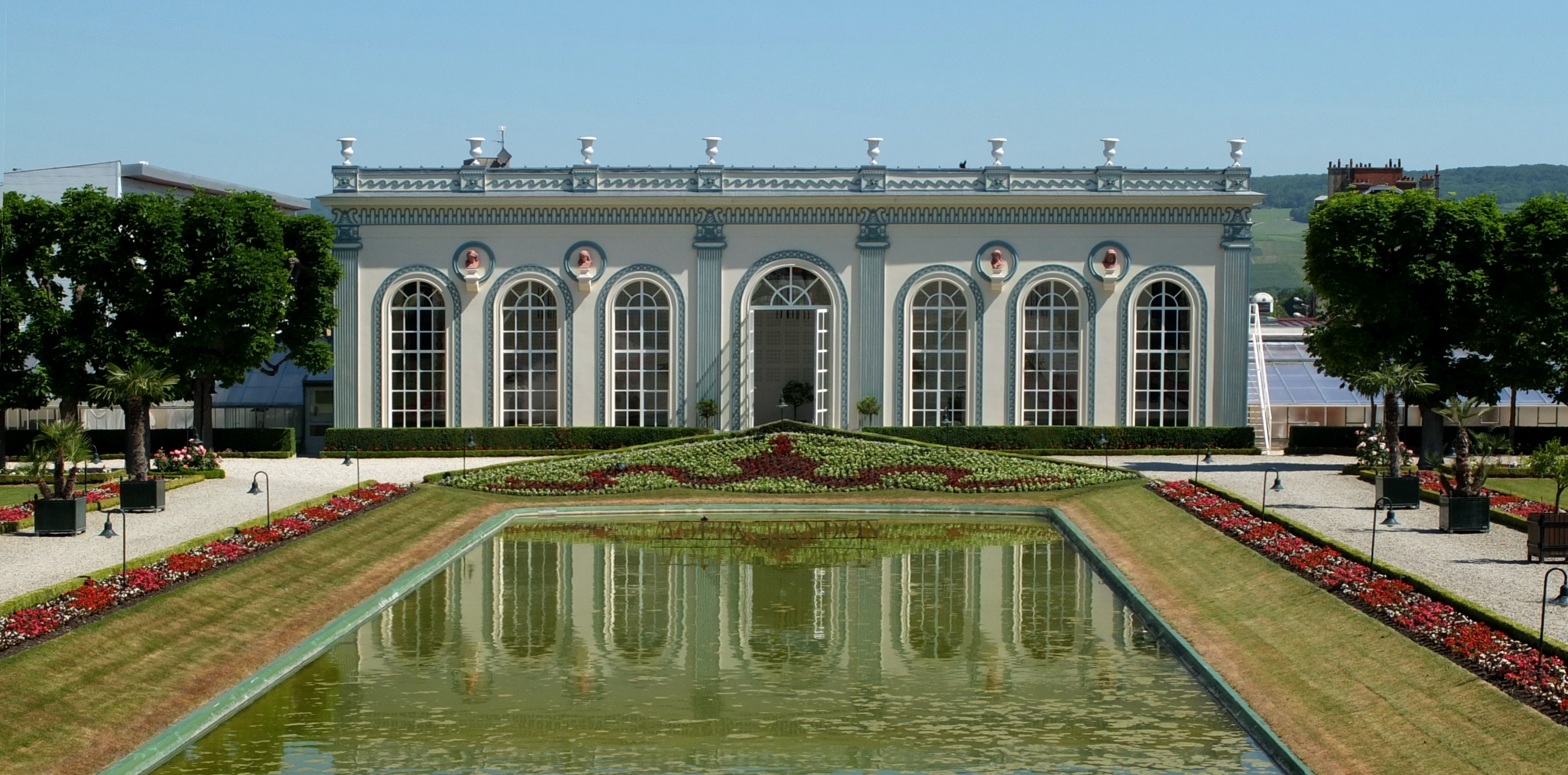 Orangerie de Moët & Chandon on Avenue de Champagne in Épernay, France (view from SSW)